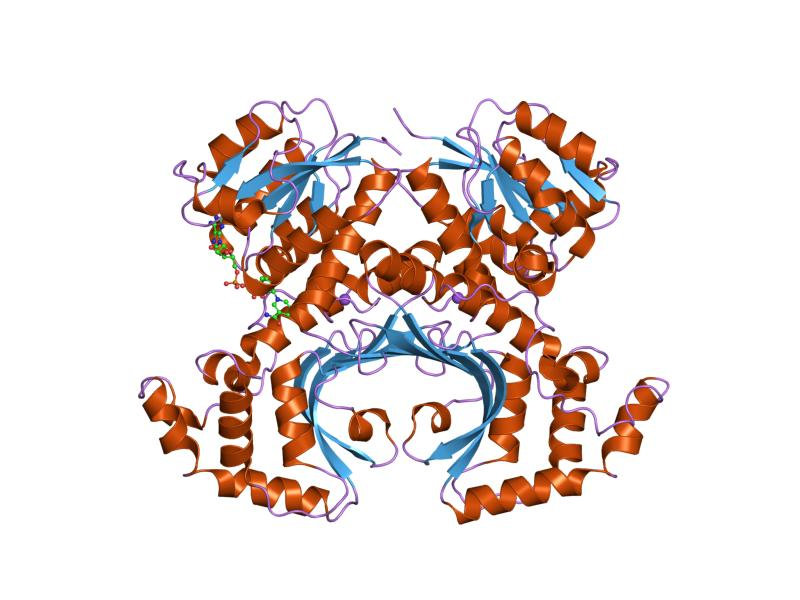 Cartoon representation of the molecular structure of protein registered with 1ebf code.